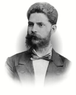 portrait of Mihail Sarafov